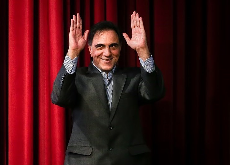 The closing ceremony of Shahrzad series in Tehran’s Milad Tower the series’ cast as well as the country’s artistic and political figures in attendance.